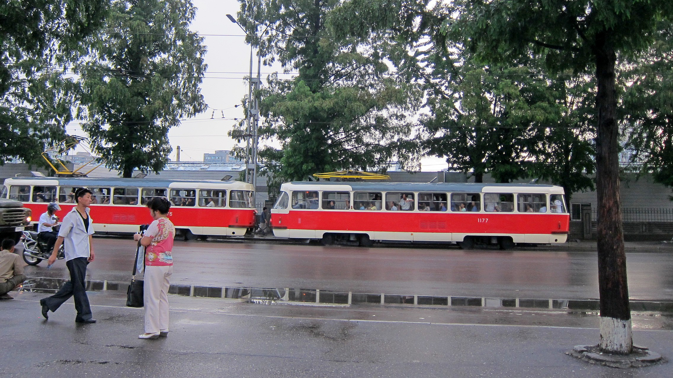 One of the typical Tatra trams in Pyongyang, North Korea